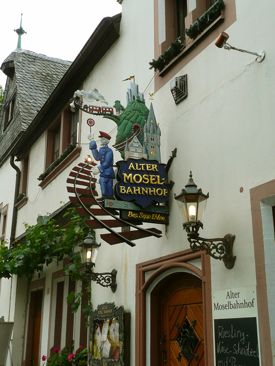 Shop sign of the old train station of Bernkastel, now a restaurant with corresponding records, Rhineland-Palatinate.